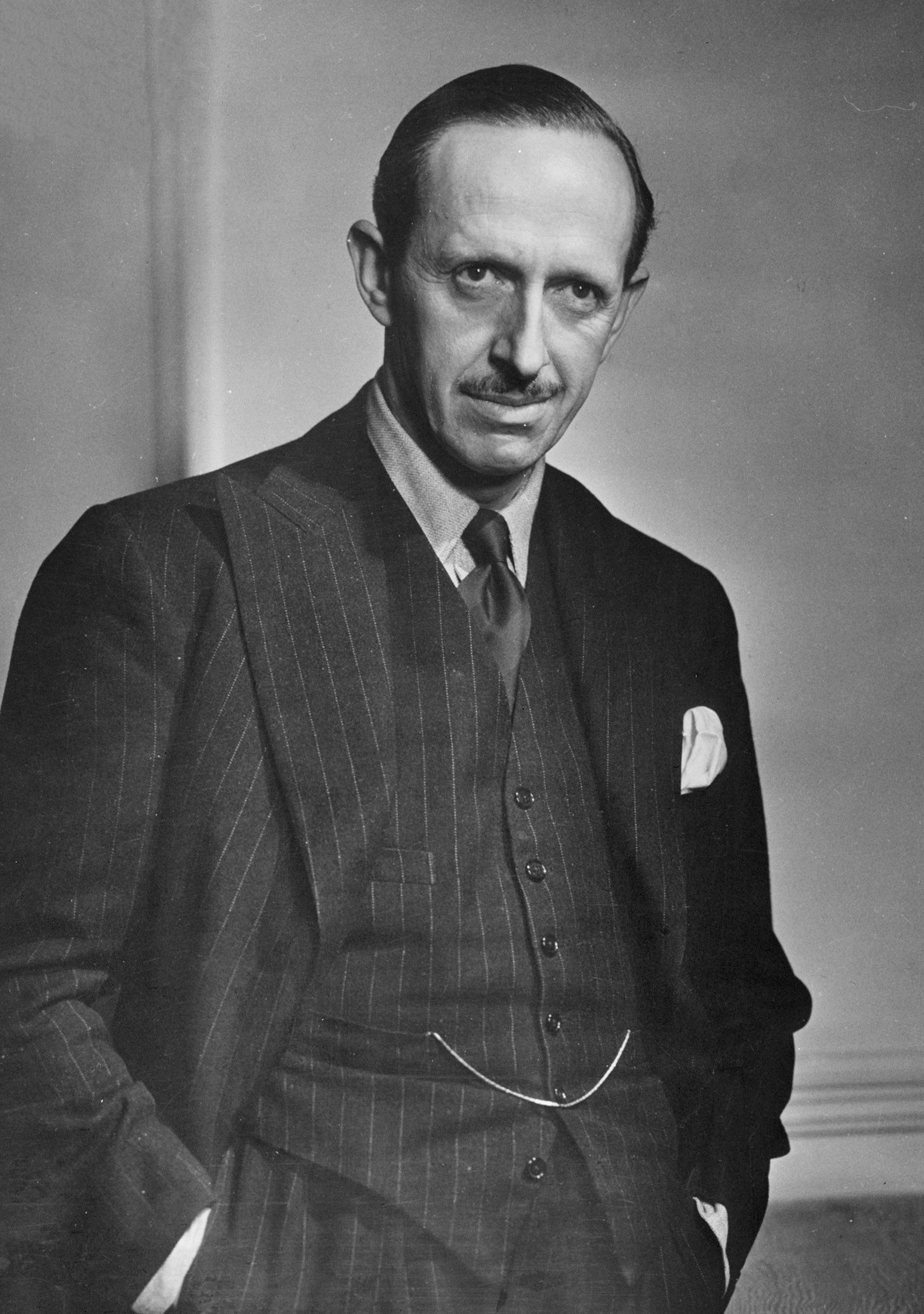 Robert Gascoyne-Cecil, 5th Marquess of Salisbury